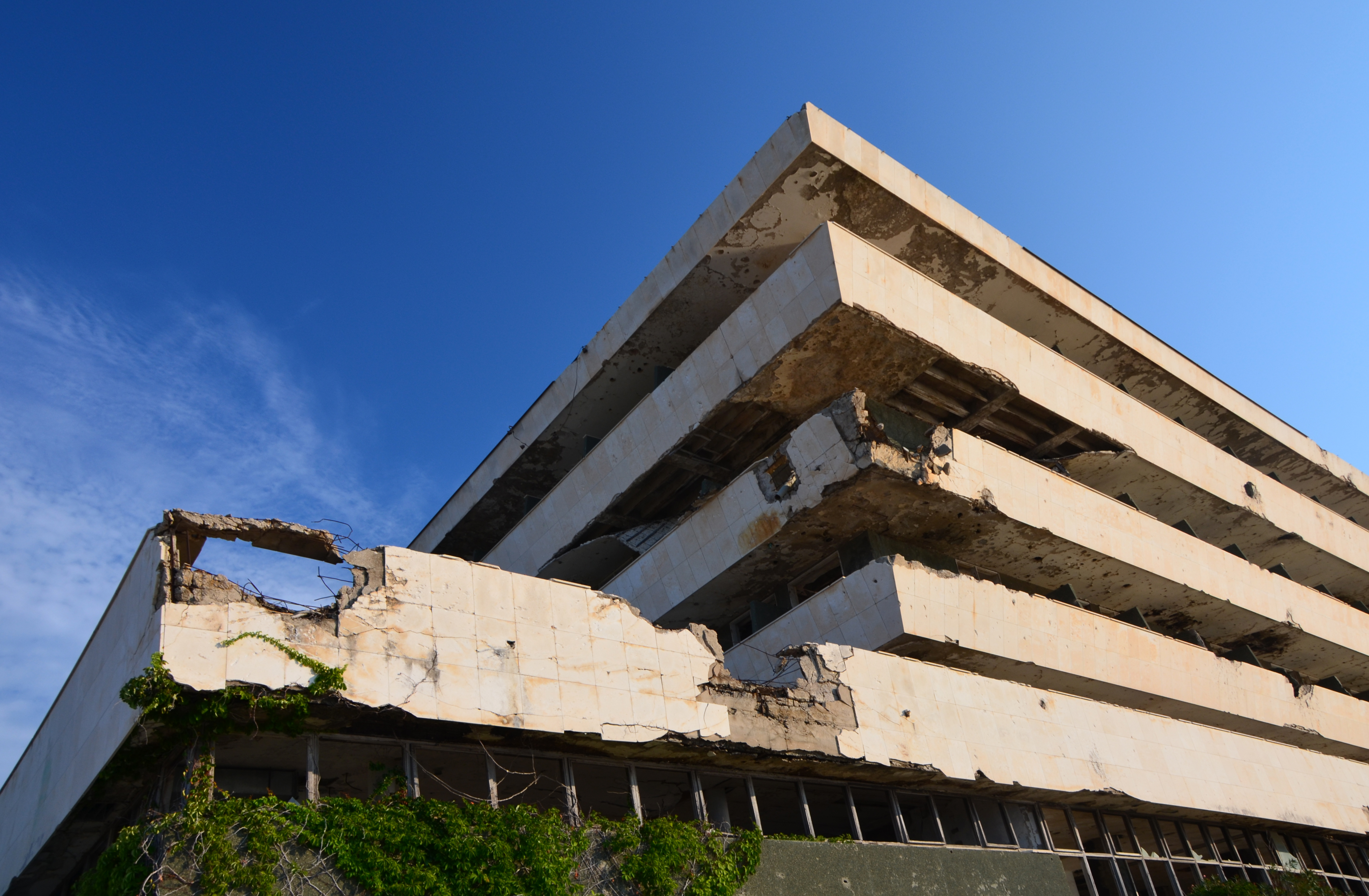 Hotel Pelegrin in Kupari (Croatia), abandoned during the Croatian War of Independence, in 1991.